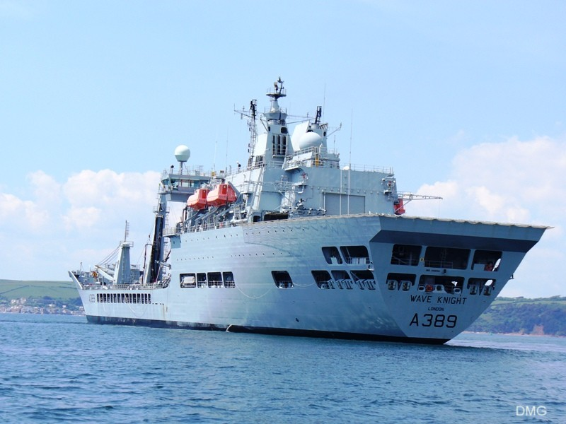 RFA Wave Knight. Plymouth 2006. DM Gerrard.